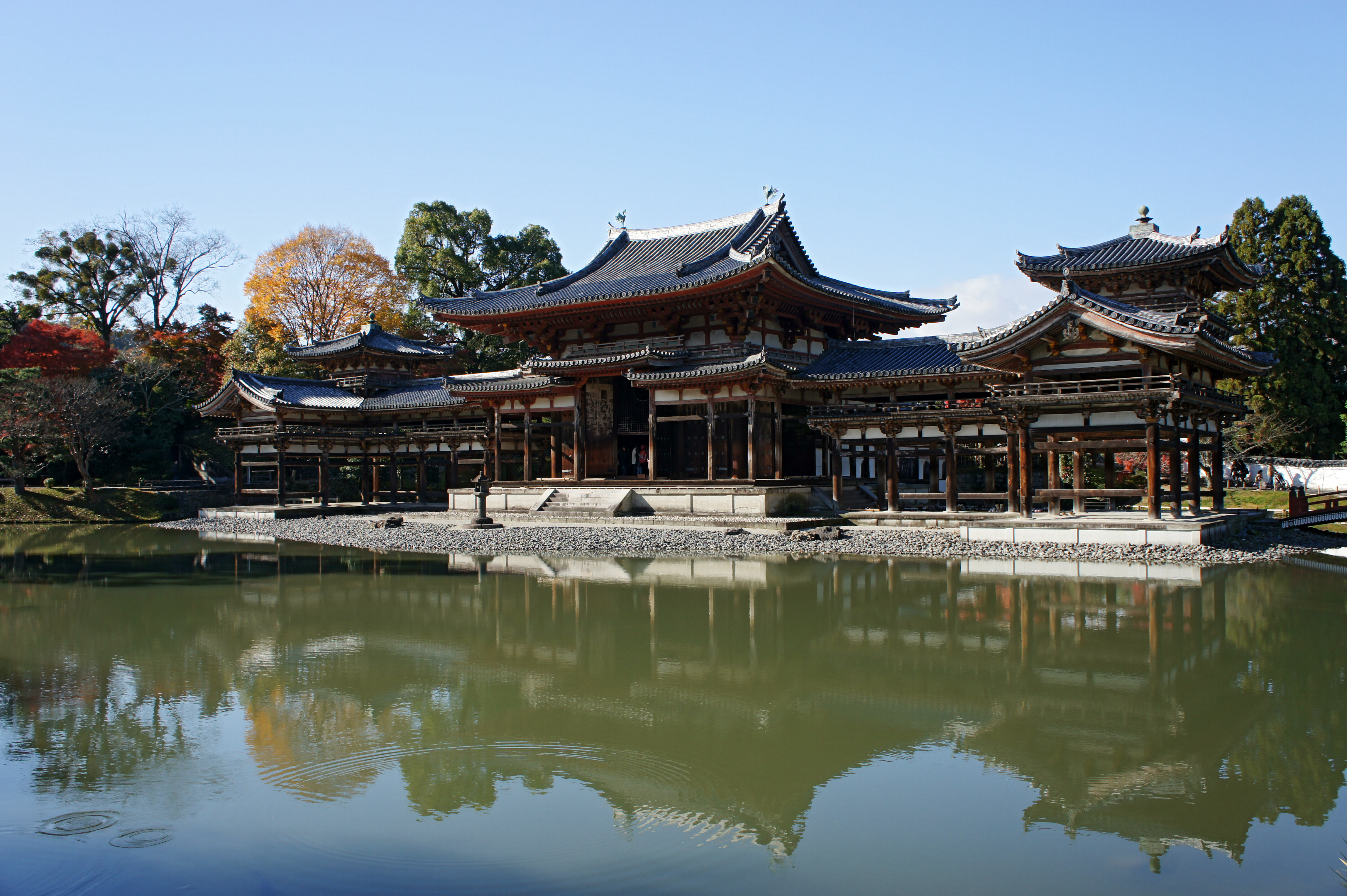 Byōdō-in's Phoenix Hall is a Japan's National Treasure in Uji, Kyoto prefecture, Japan It was built in 1153. Byōdō-in was registered as part of the UNESCO World Heritage Site "Historic monuments of ancient Kyoto".